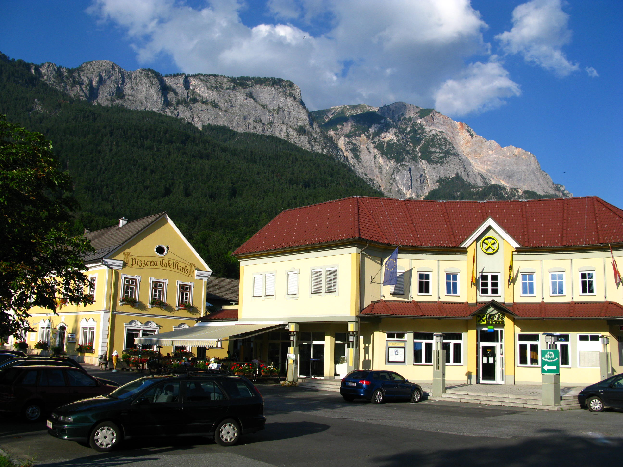 Square in Noetsch / Carinthia / Austria / EU.